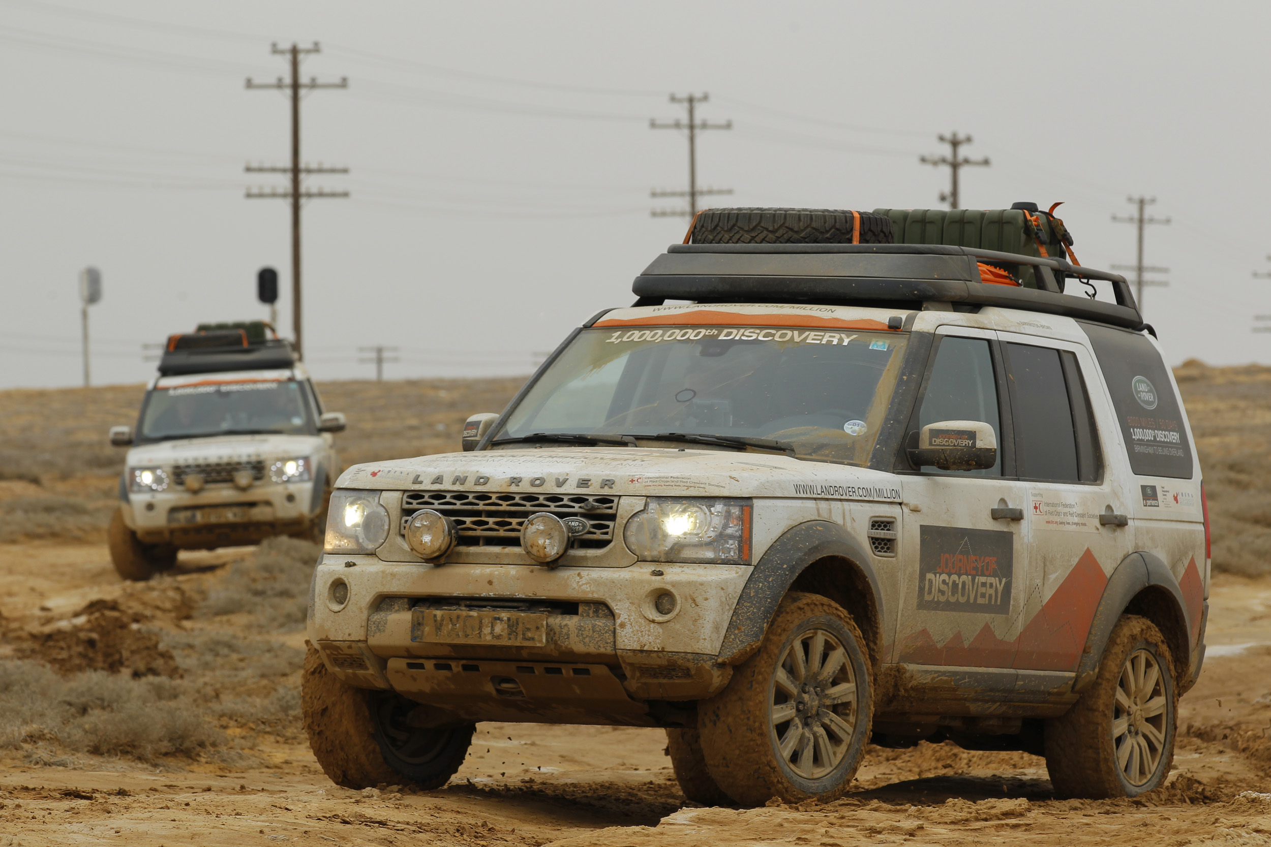 The one millionth Land Rover Discovery after a few hundred fun miles of off-roading and dirt road driving on the way through Kazakhstan.